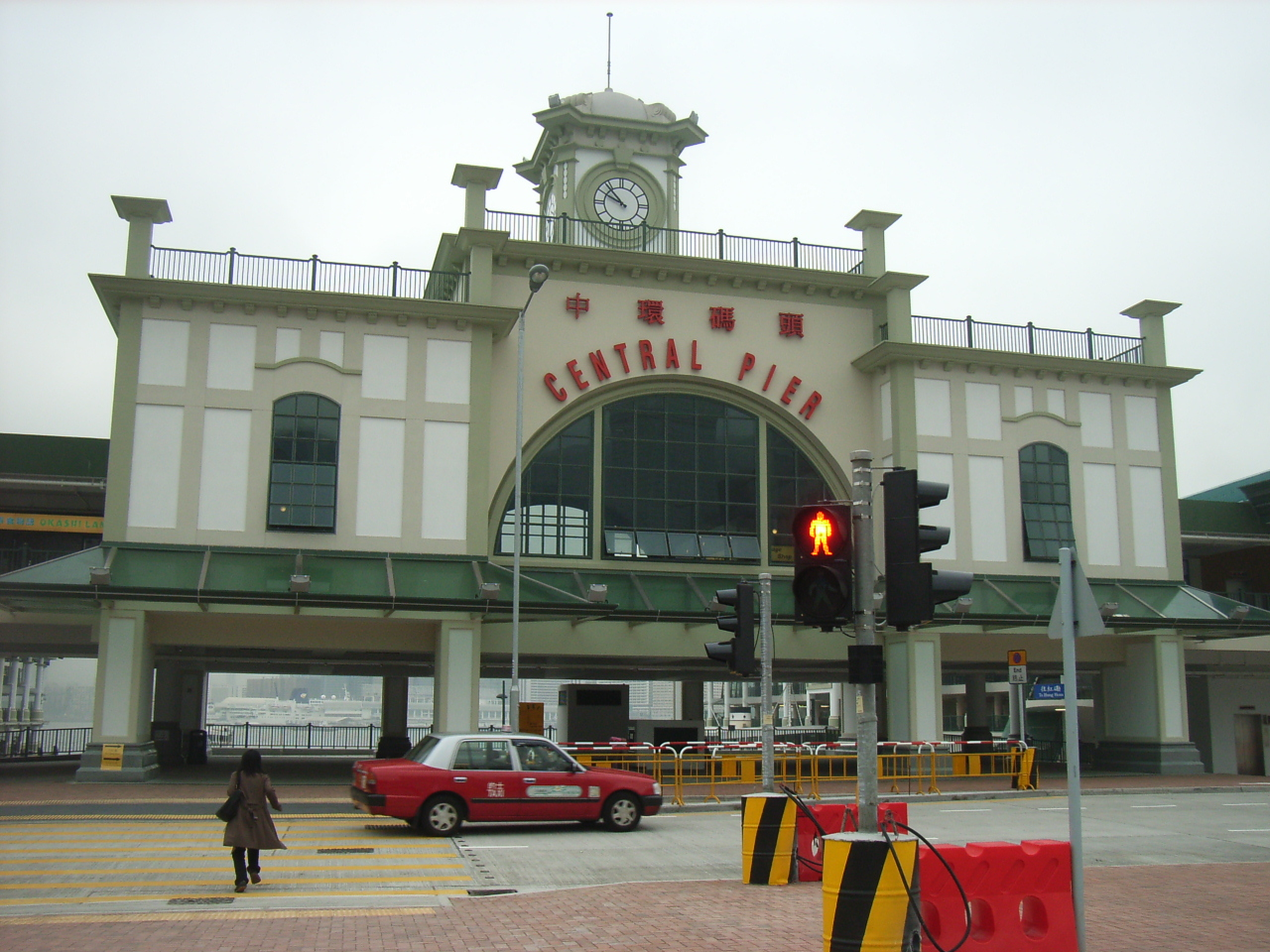 中環渡輪碼頭 Central Ferry Pier. Photo created by User:OLAMB.